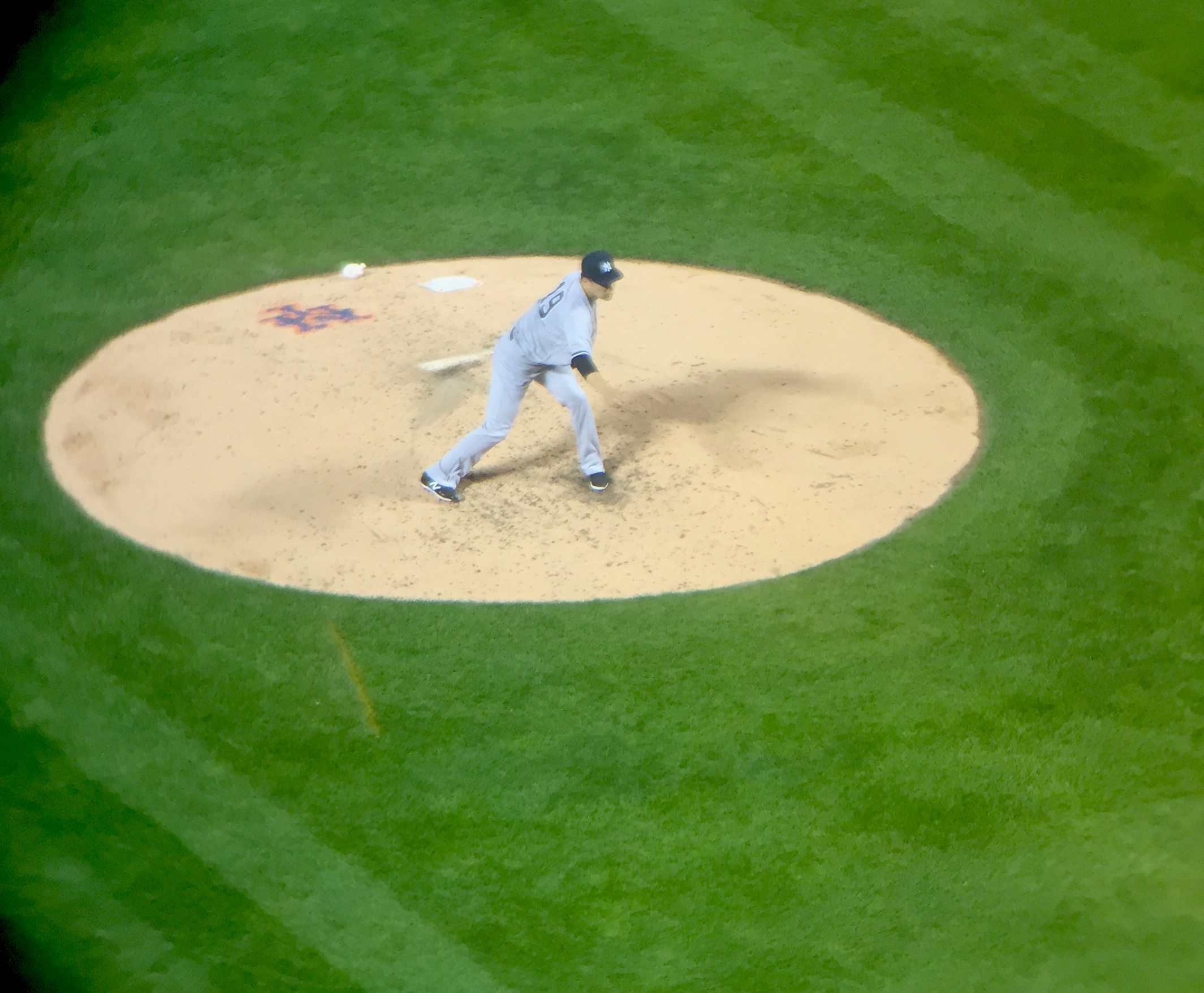 Masahiro Tanaka of the New York Yankees pitches against the New York Mets in the Subway Series, September 18, 2015.